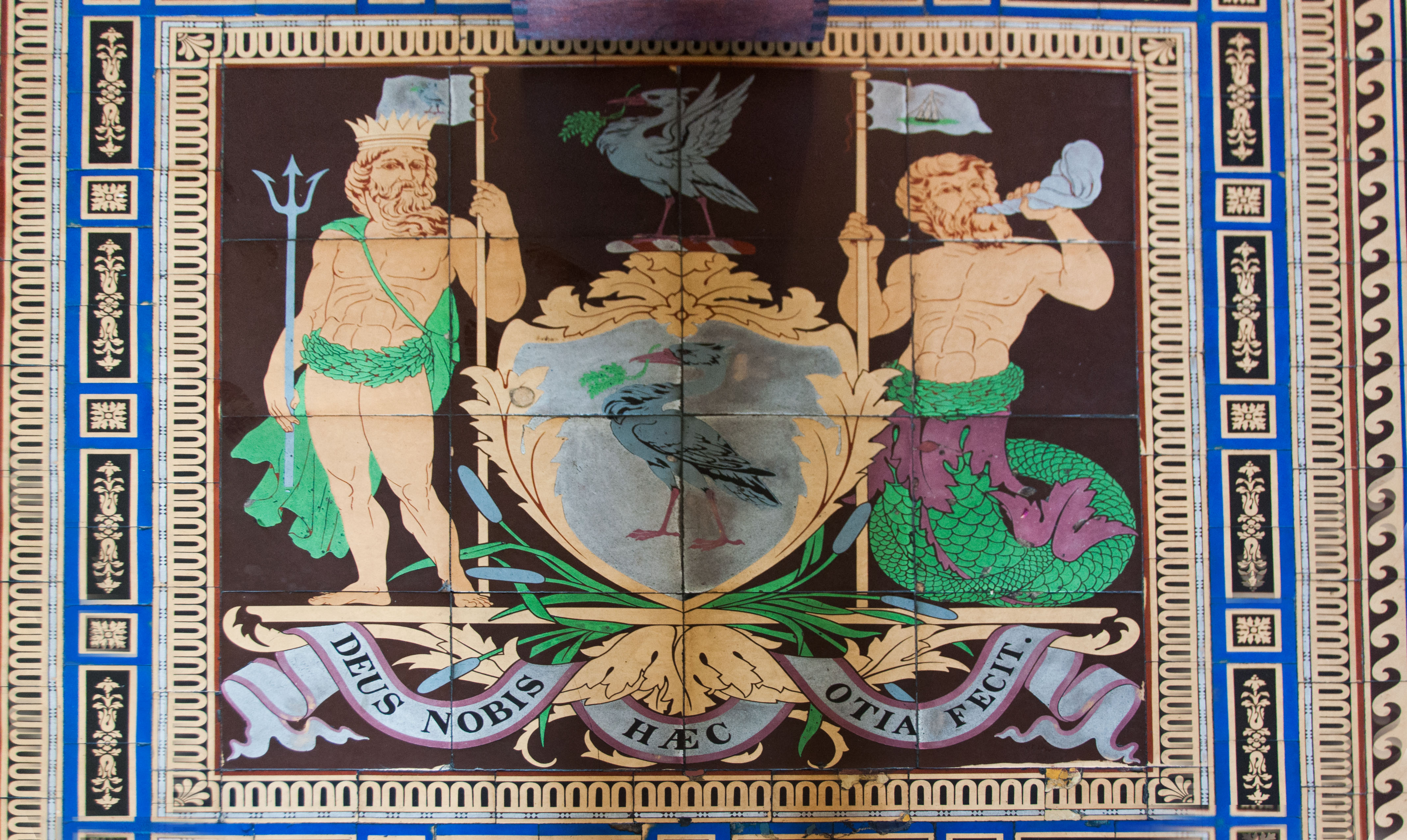 These encaustic tiles are on the ground floor (literally!)of Liverpool Town Hall ( The Liverpool Motto is a quotation from Virgil and translates as 'God has given to us this leisure'.